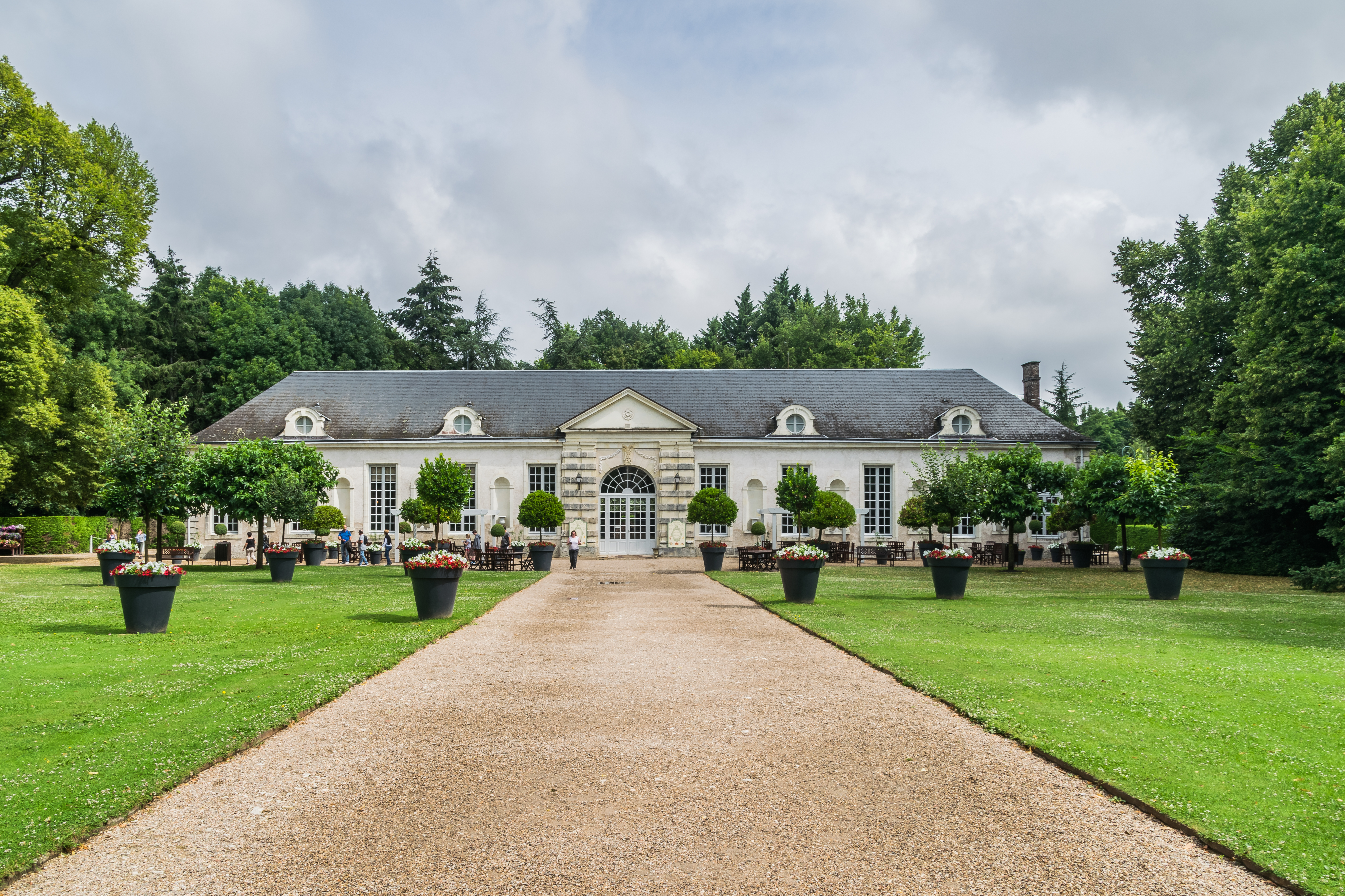 Orangery of the Castle of Cheverny, Loir-et-Cher, France This building is en partie classé, en partie inscrit au titre des Monuments Historiques. .